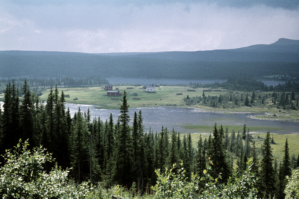 Lake Stor-Dabbsjön at Dabbnäs in Lapland. Stor-Dabbsjön vid Dabbnäs. Parish (socken): Dorotea Province (landskap): Lappland Municipality (kommun): Dorotea County (län): Västerbotten Photograph by: Björn Allard Date: August 1960 Format: Colour slide Persistent URL: Read more about the photo database (in english)